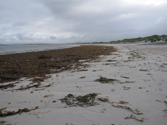 Kelp on the beach Not the best smell, but good feeding for gulls and waders.